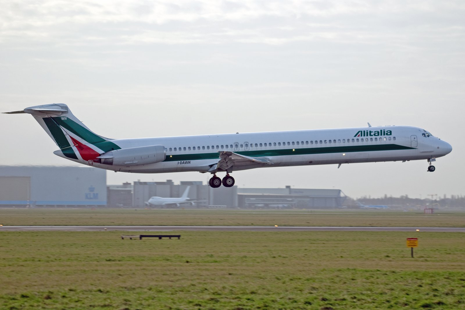 New colors on the airplane. McDonnell Douglas MD-82 Amsterdam schiphol EHAM (27-01-2008)